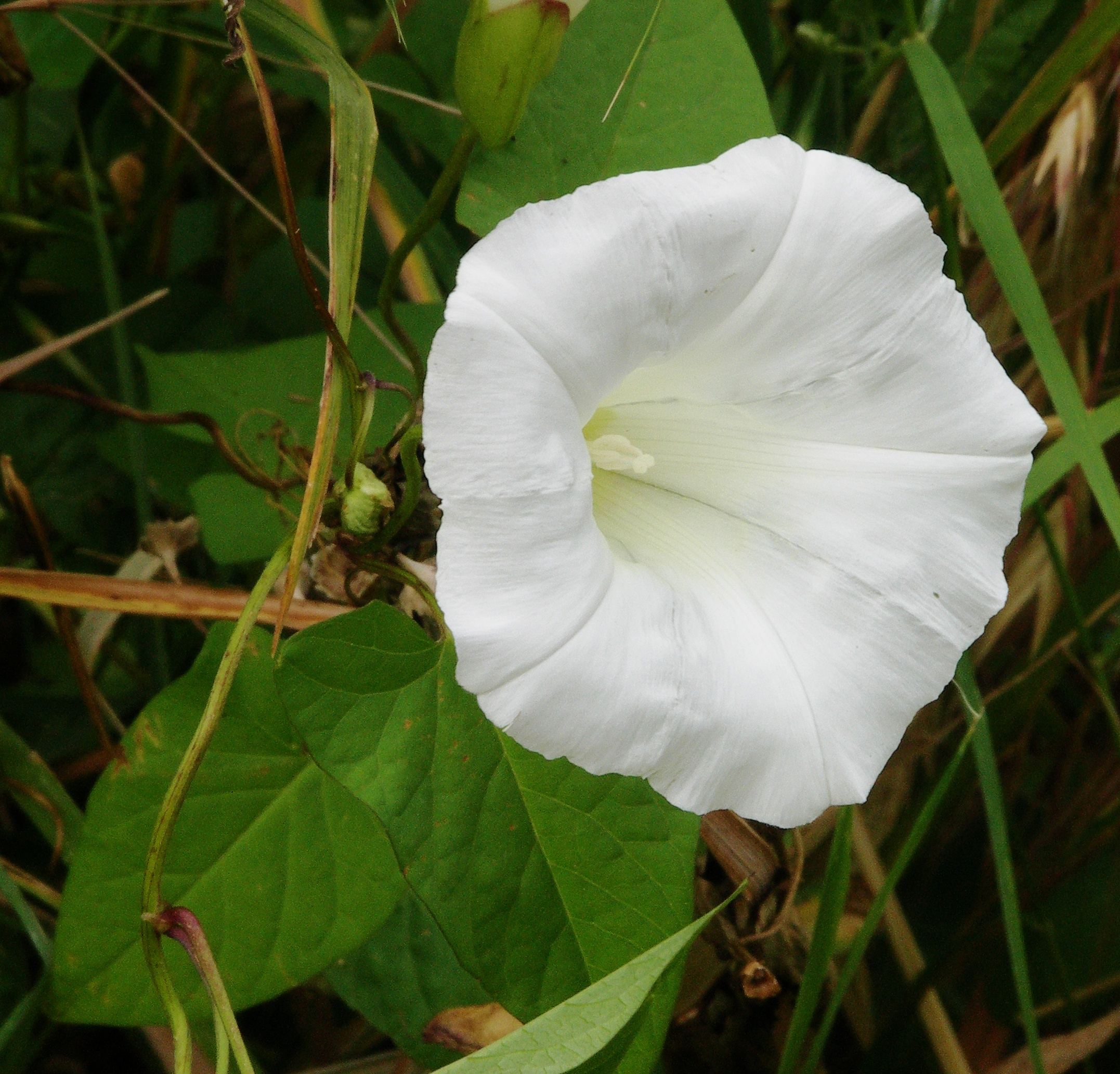 A flower of Calystegia sepium (Greater Bindweed).